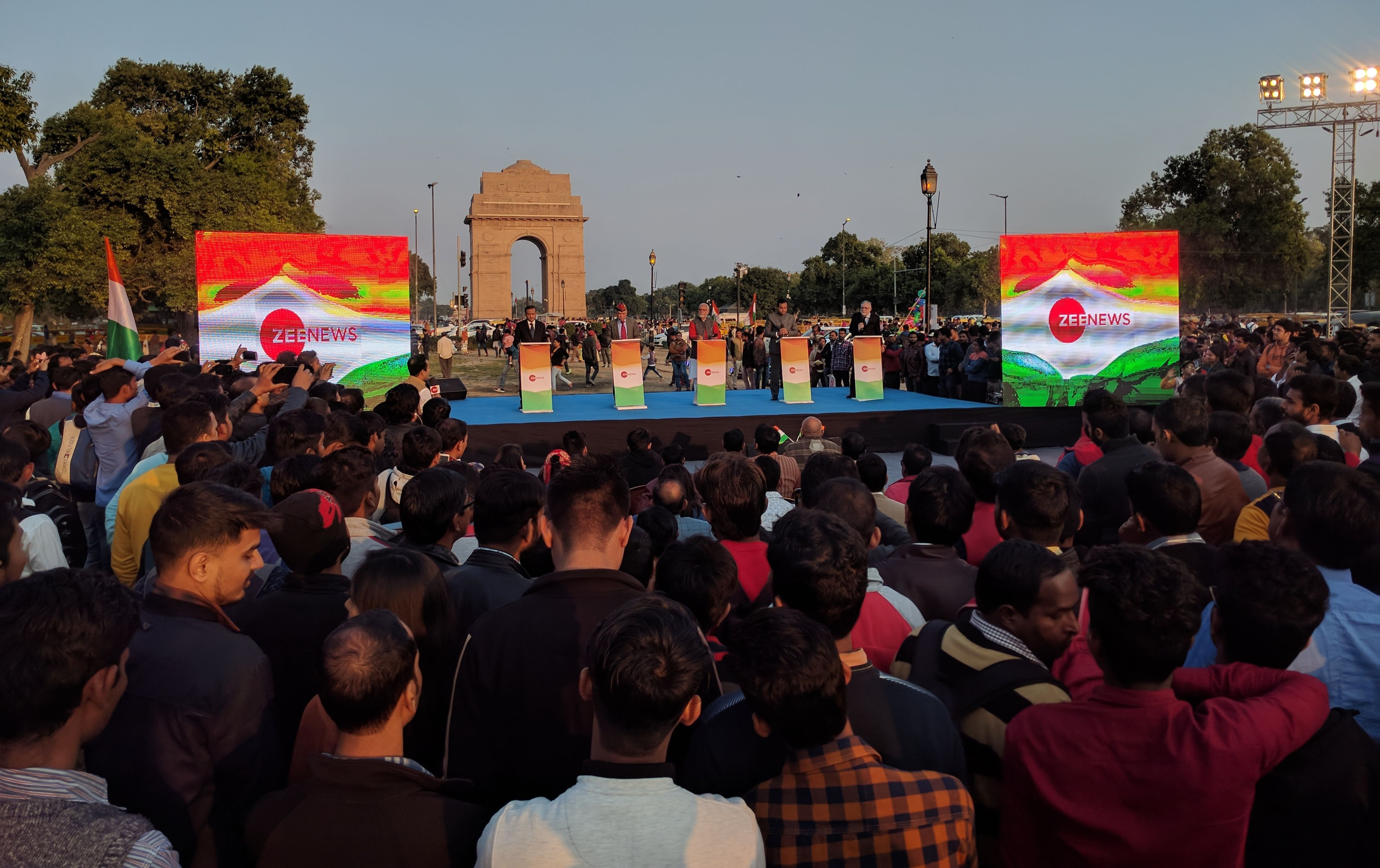 Zee News live debate on 28th February 2019, Rajpath, India Gate, New Delhi. Among the debaters present is Sambit Patra.